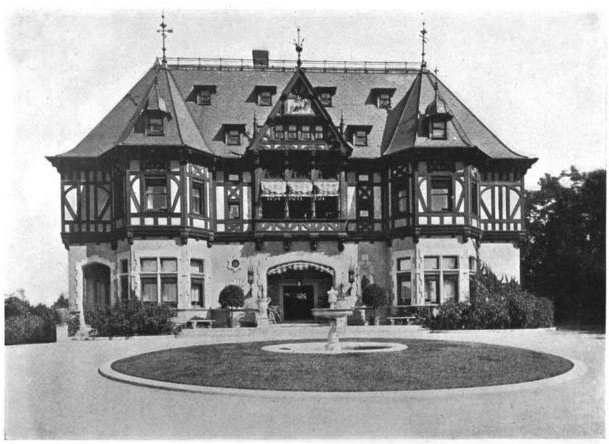 Mortemar, the home of Richard Mortimer in Tuxedo Park, New York as shown in Architectural Record, Volume 18 (1905)